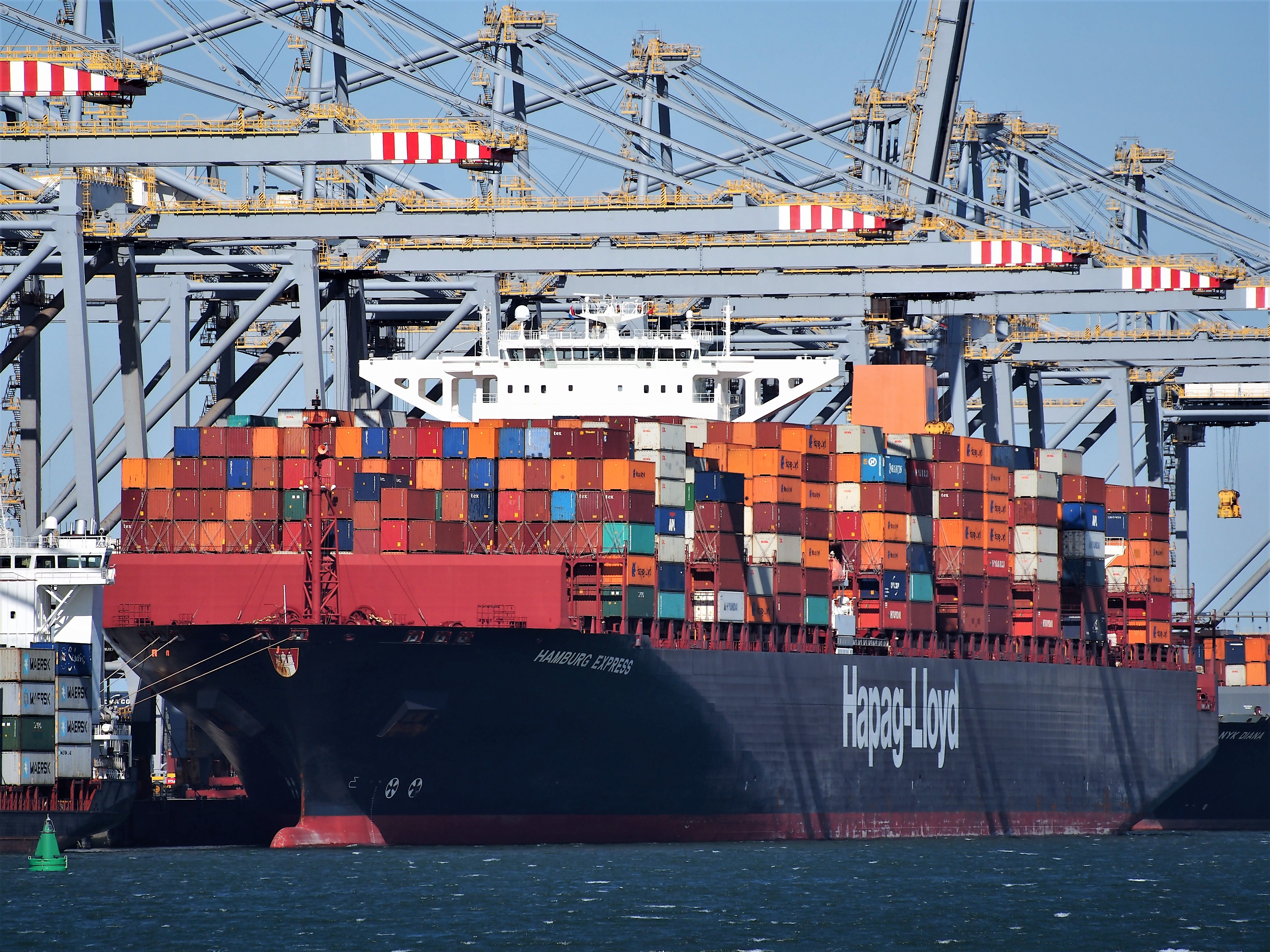 Photographed at Port of Rotterdam, The Netherlands.